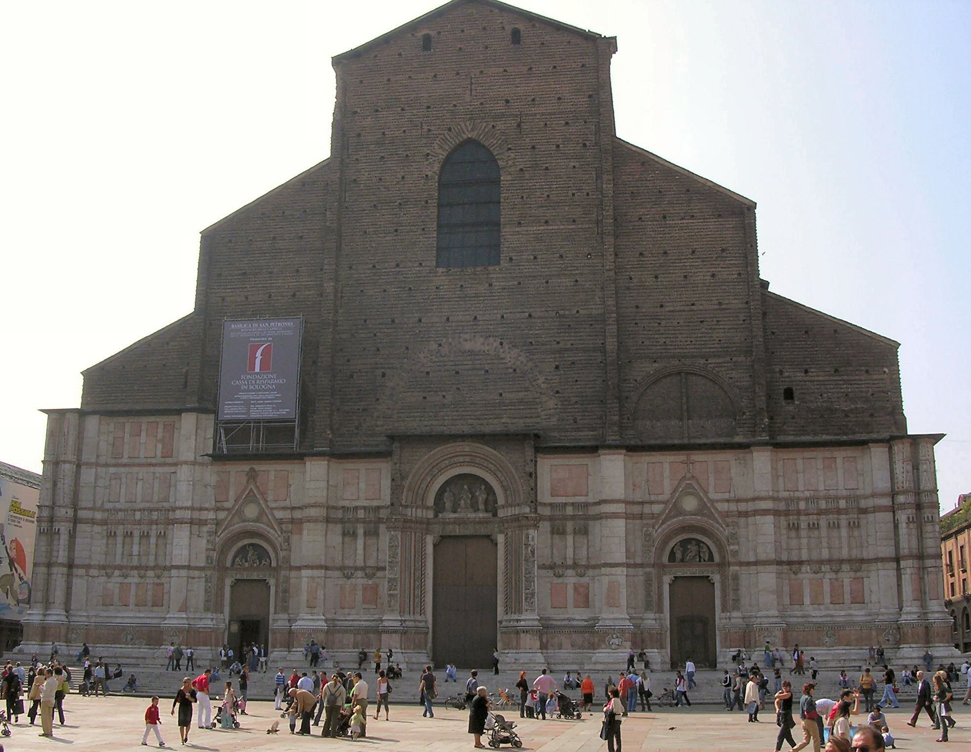 The Basilica di San Petronio in Bologna. Picture by Paolo Carboni (myself)